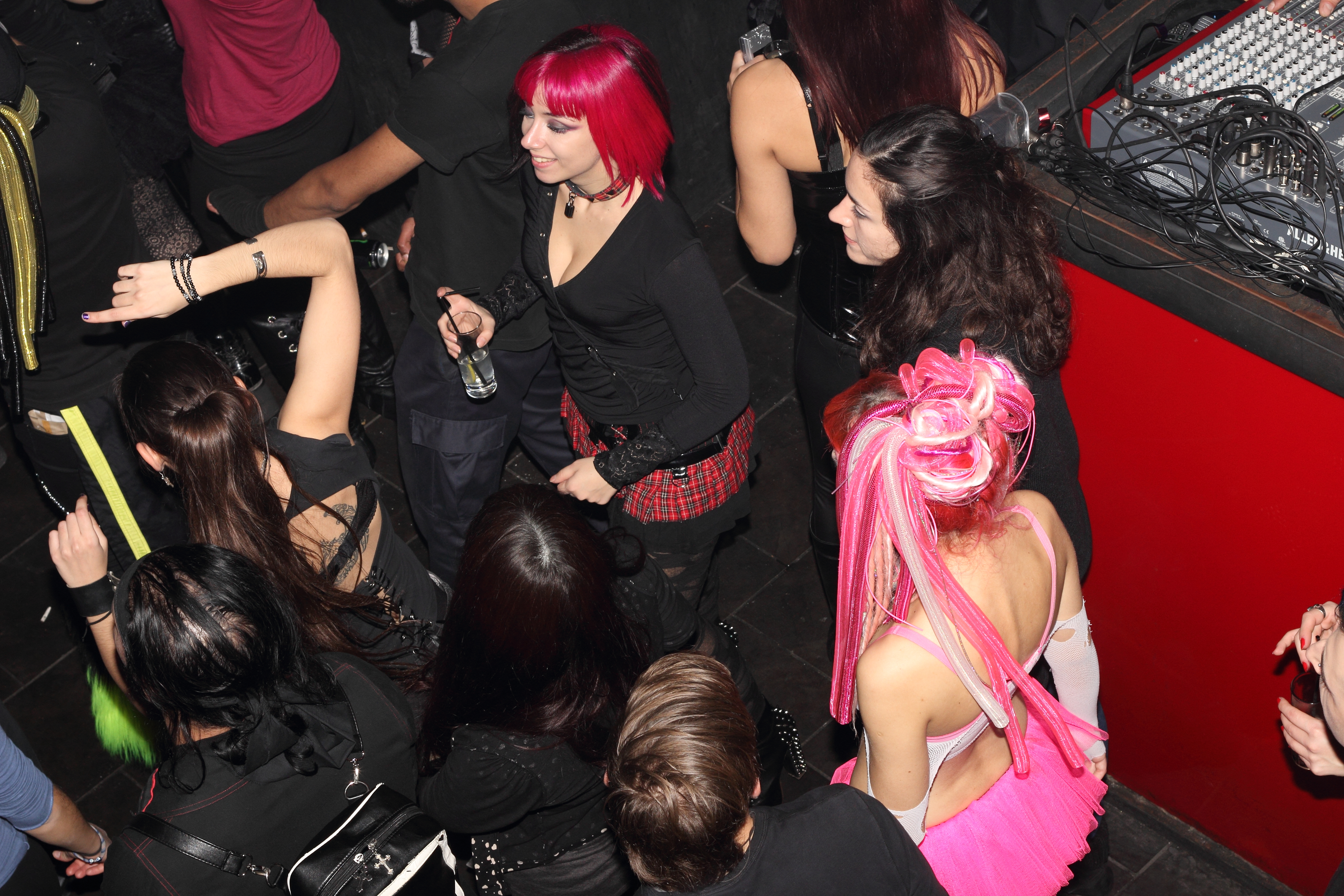 Social documentary photojournalism at the Incubite music concert at the Second Skin nightclub in Athens, Greece in February 2012. Photographer donates the images hoping they will be useful for journalistic and educational use, for example in encyclopedia articles related to industrial music or nightlife sociology.